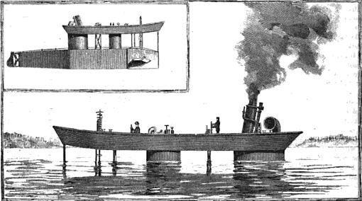 A peculiar boat invented by Gustaf de Laval (1845-1913).